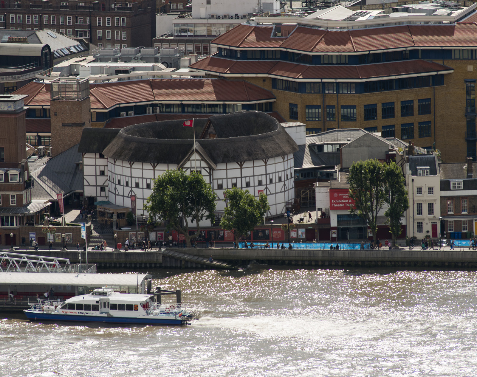 From off St Pauls